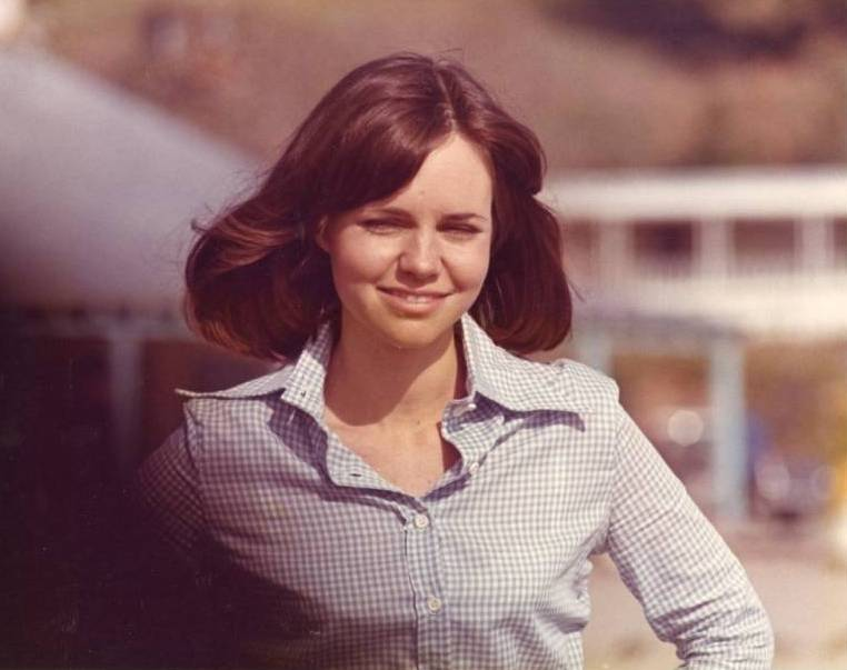 Sally Field in The Girl with Something Extra (1973-74)